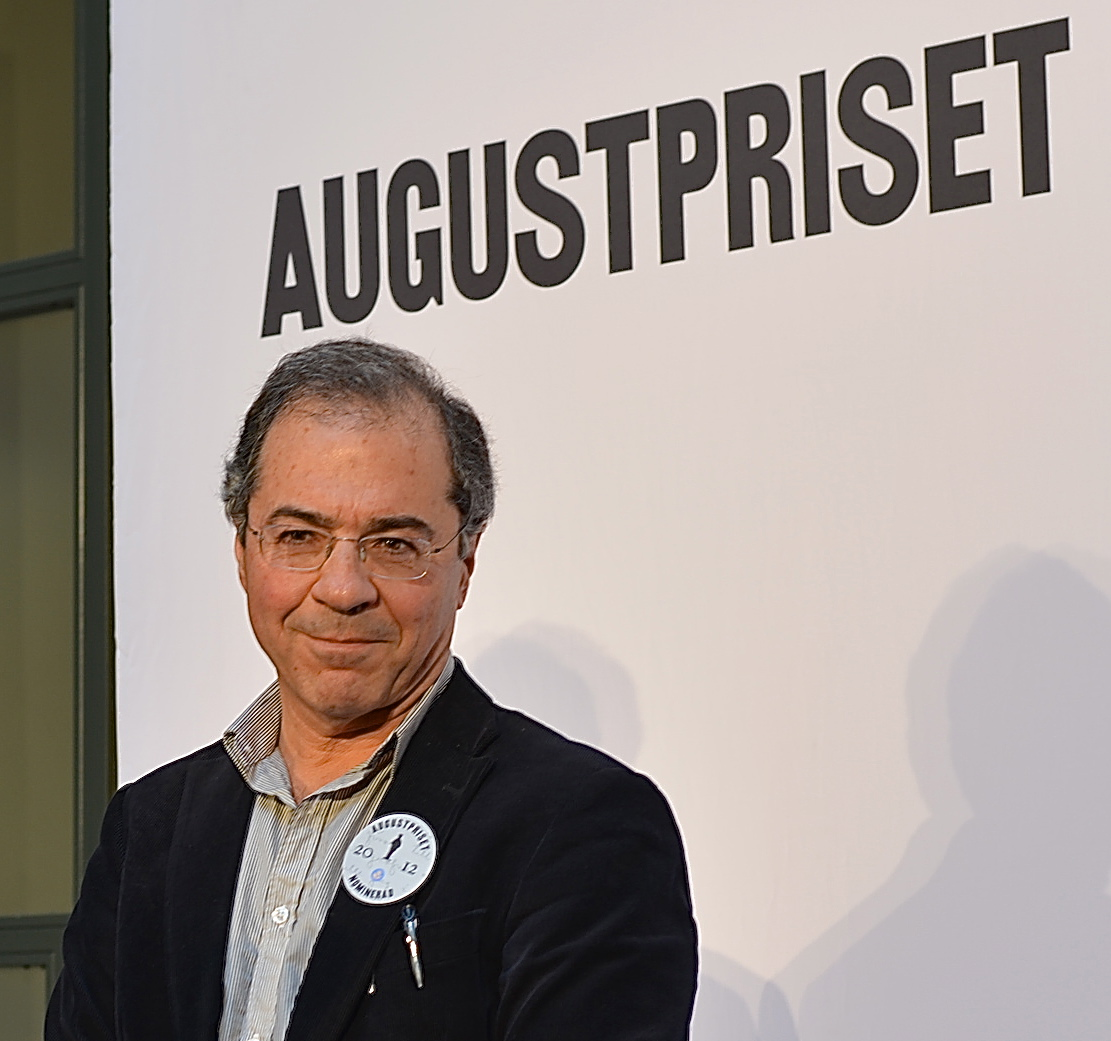 Göran Rosenberg, winner of the August Prize in the fiction category in 2012.